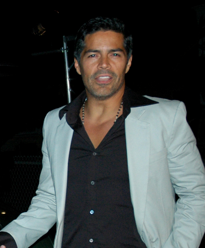 American actor Esai Morales at the Ford and project7ten Sustainable/Green Home opening party. Photo released by the Ford Motor Company.